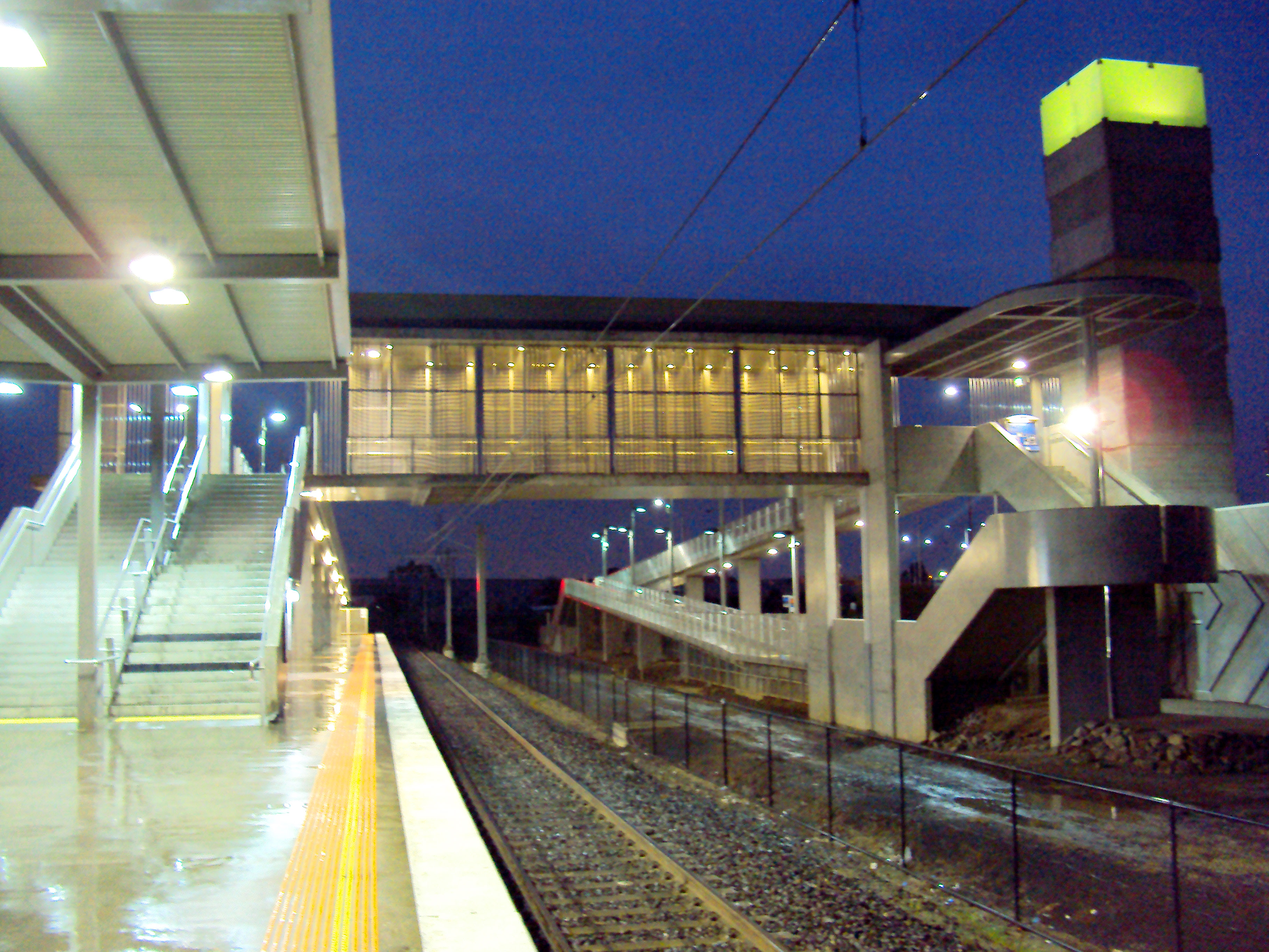 Roxburgh Park Rail Station, Victoria, Australia.